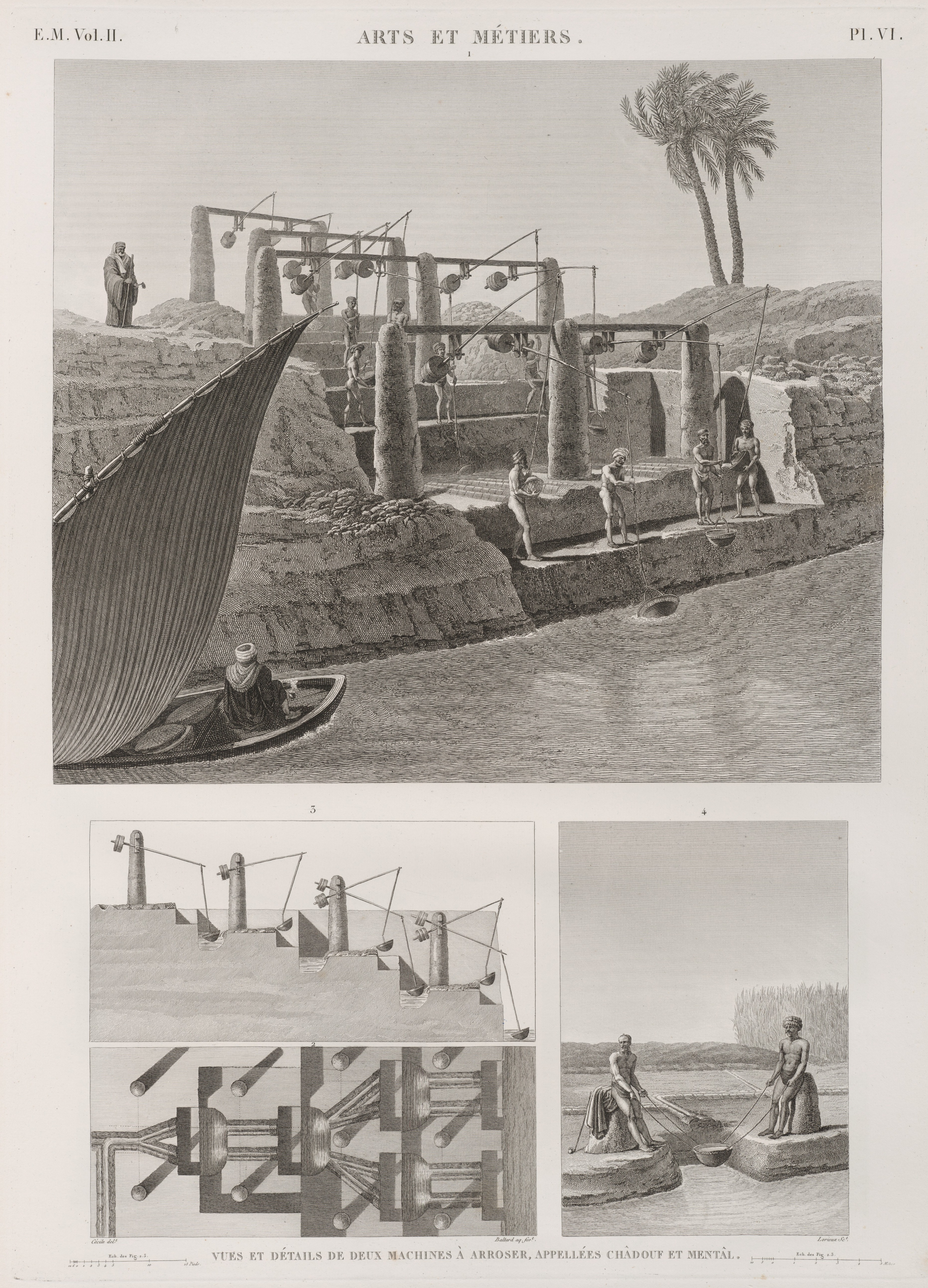 Arts et métiers. Vue et détails de deux machines à arroser, appellées châdouf et mentâl.